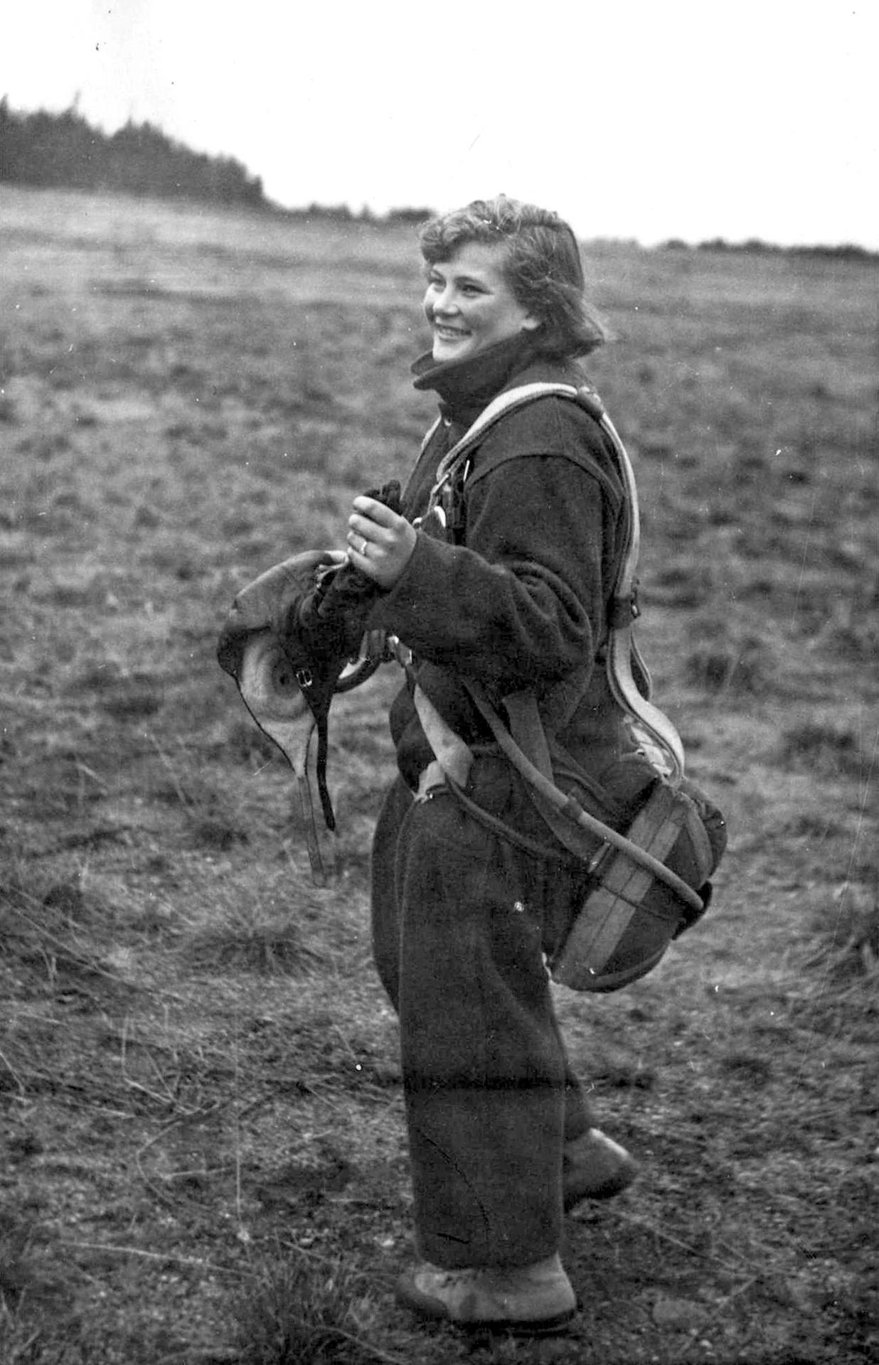 Photograph of the Finnish aerial acrobat and skydiver Anneli “Luumu” Penttilä née Linna (1932–1994).